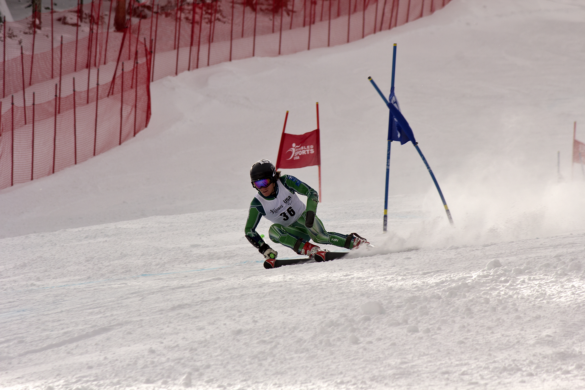 Mitchell Gourley competing in the Super G during the second day of the 2012 IPC Nor Am Cup at Copper Mountain, Colorado.